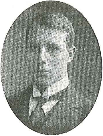 Gustaf Johnsson (from 1913 Weidel; 1890-1950), Swedish diplomat and gold winning gymnast at the 1908 Olympics. Photo from his time as a student at Lund University 1909-1914.